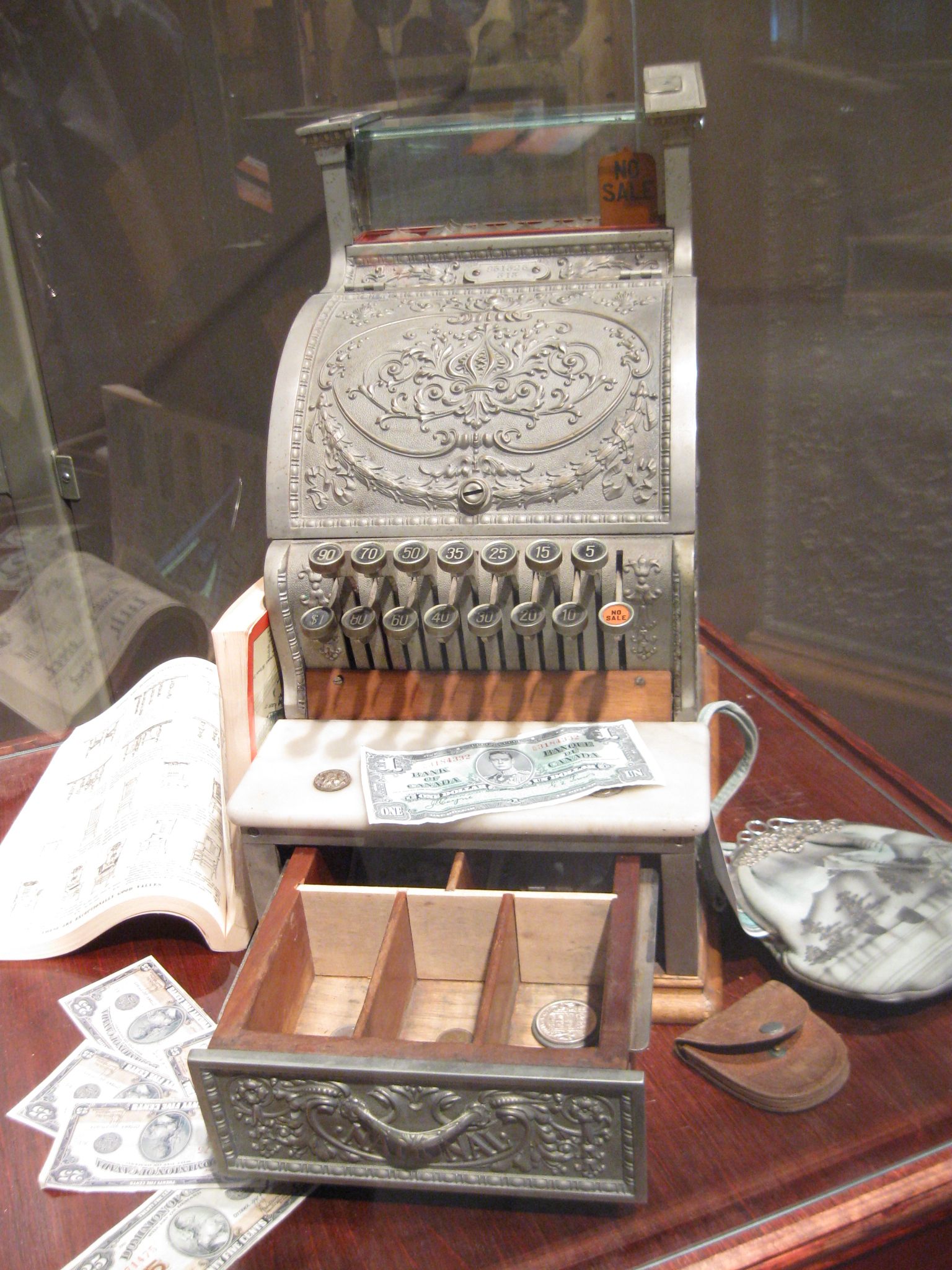 This is an old Canadian general store shopping register model which dates from the 1930's through to the 1950's from the dates of the currency on the machine. It is part of the permanent collection of the Surrey Museum in the City of Surrey, BC, Canada.